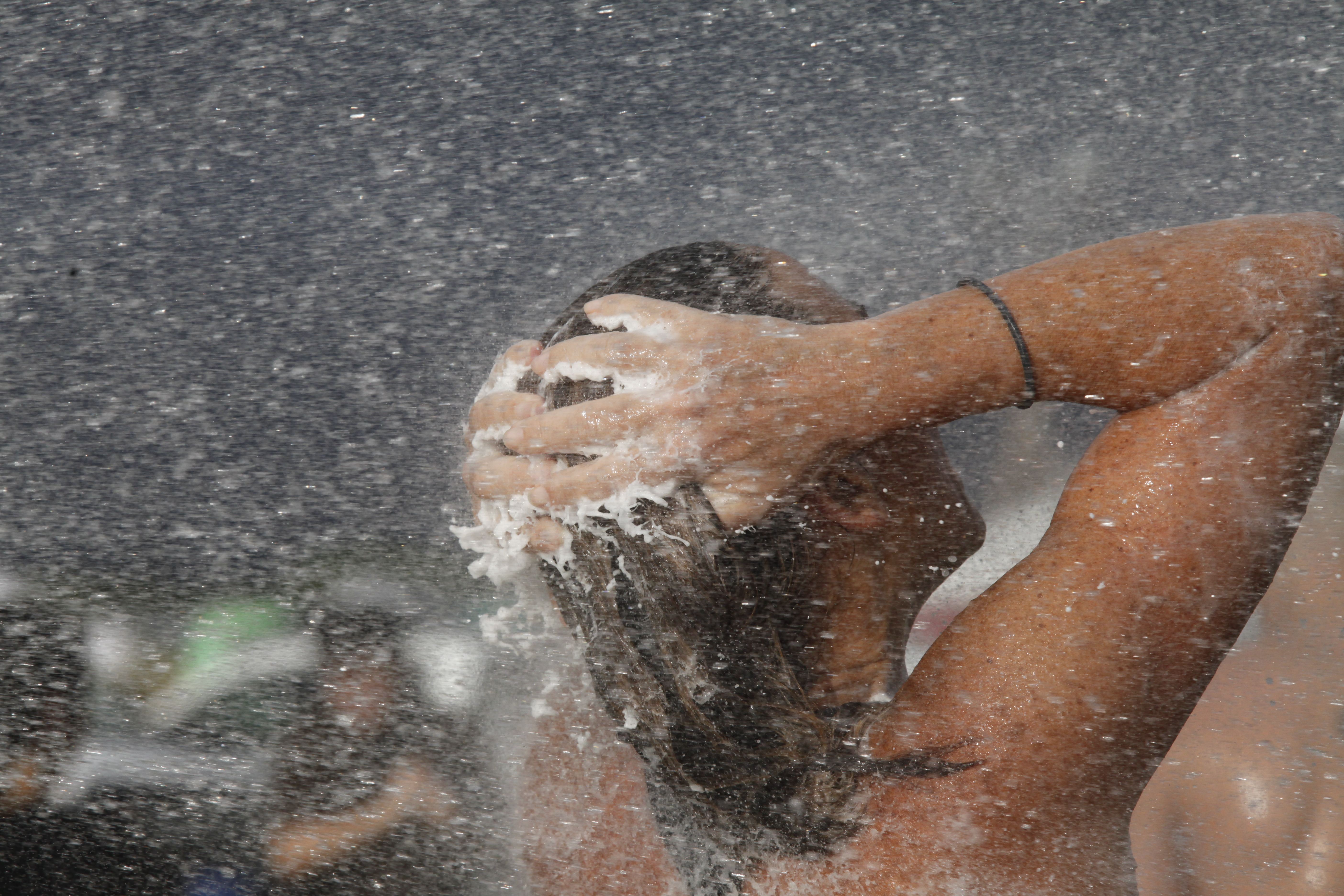 Young woman under the shower.